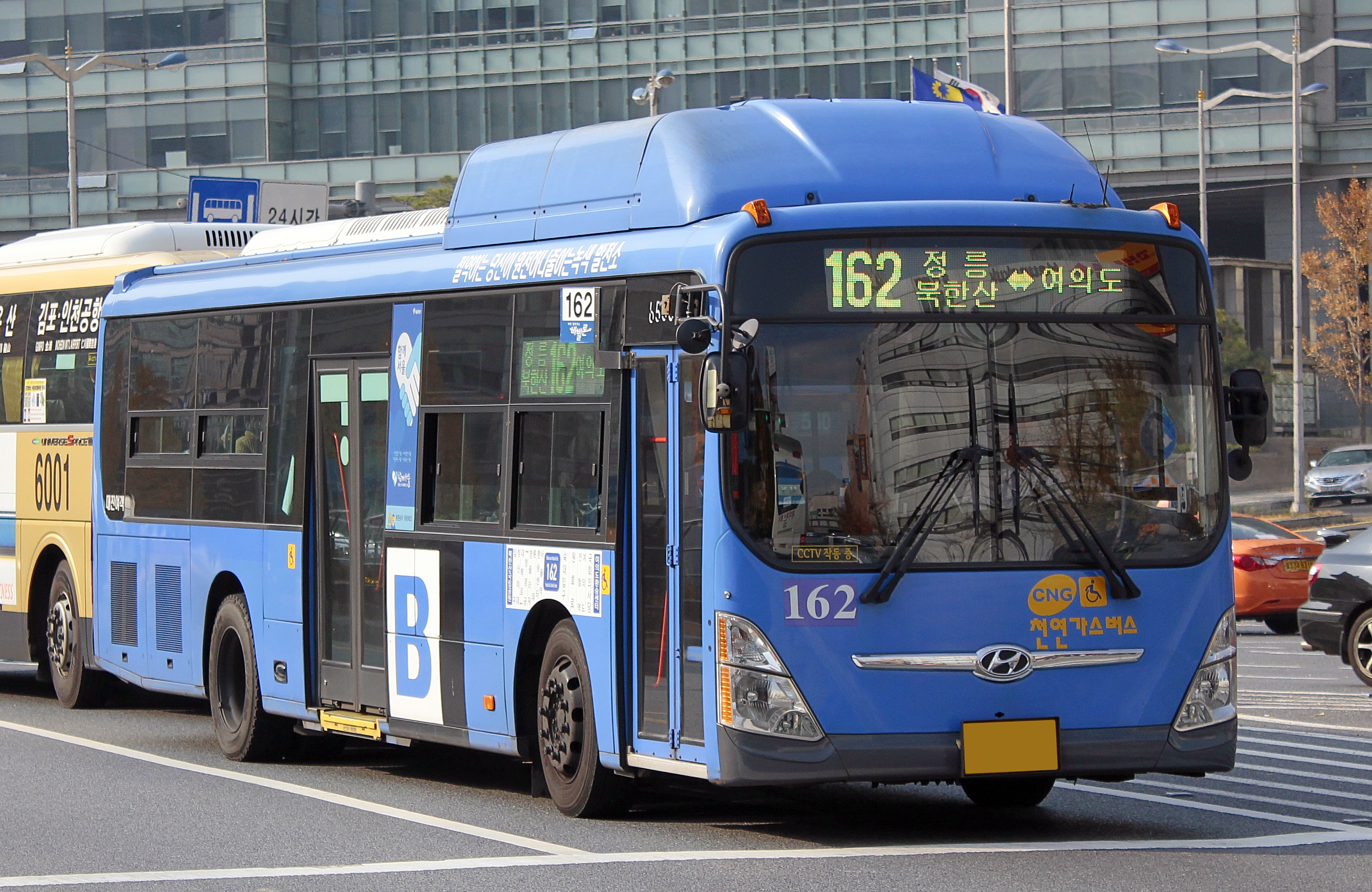 Hyundai New Super Aero City Motorcoach